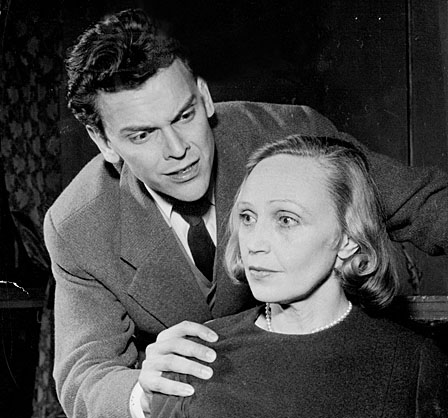 Press photo of Folke Sundquist and Inga Tidblad in Kameliadamen (1956).